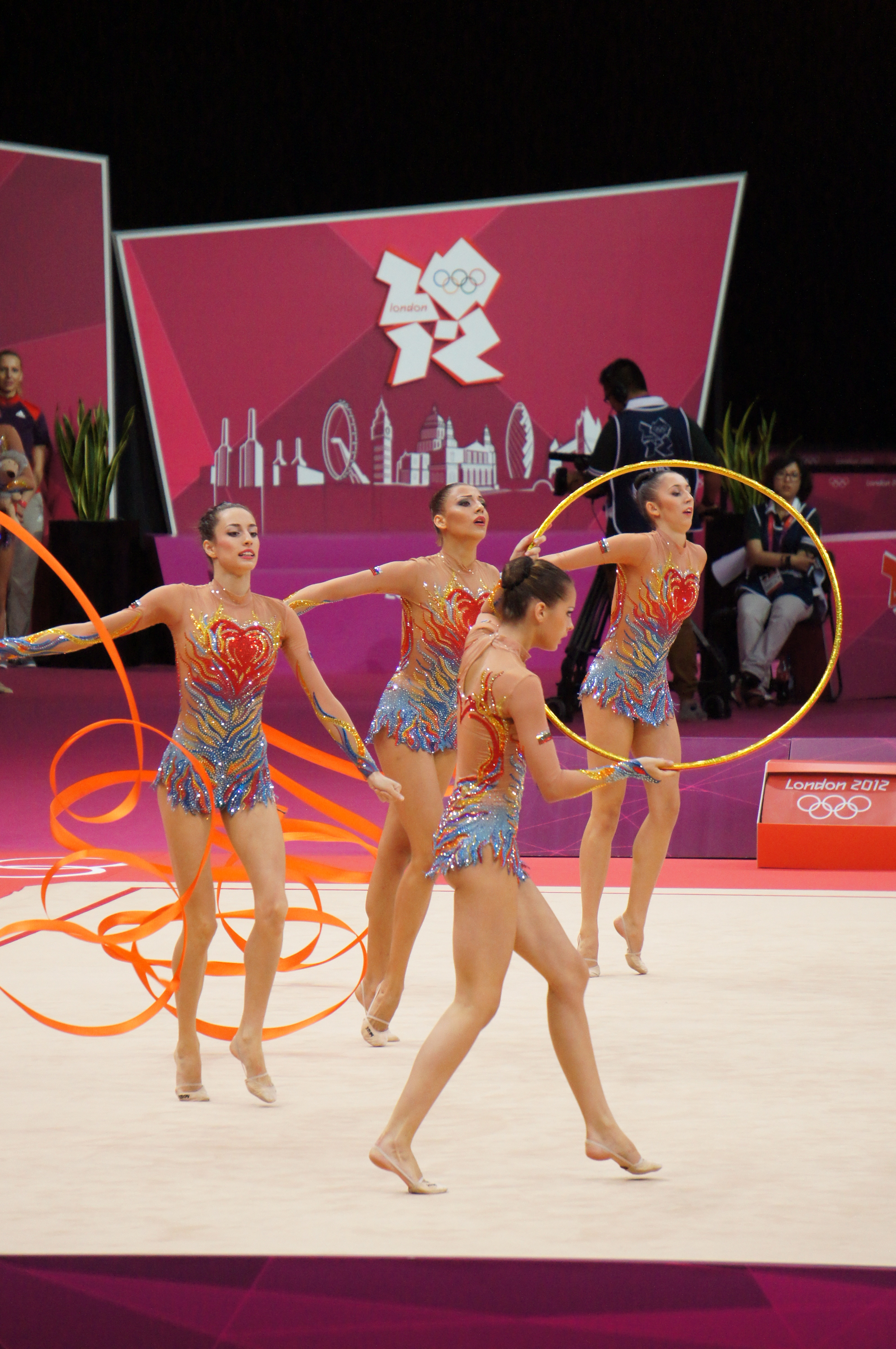 Rhythmic gymnastics at the 2012 Summer Olympics